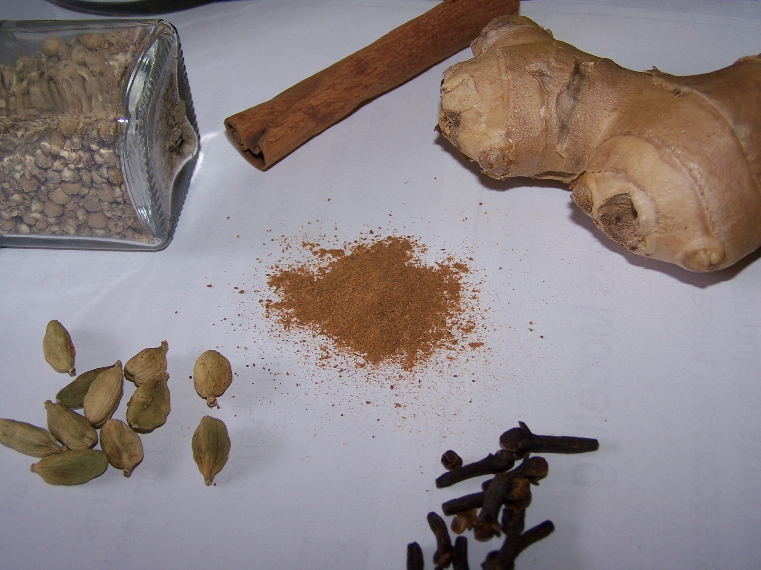 mixed spices for speculaas